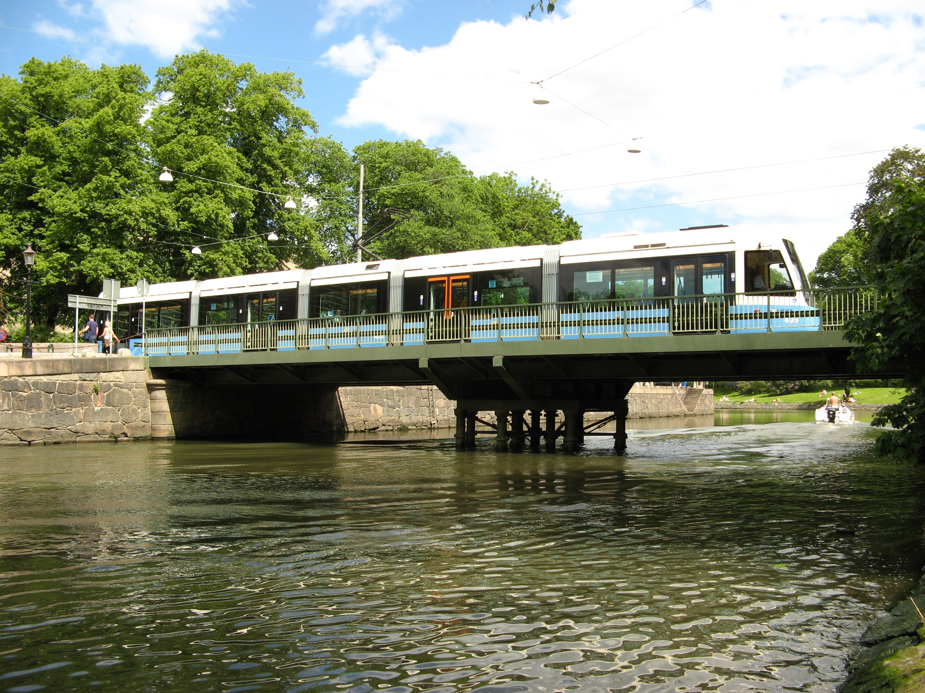 Tram in Gothenburg, no 406, M32 tram